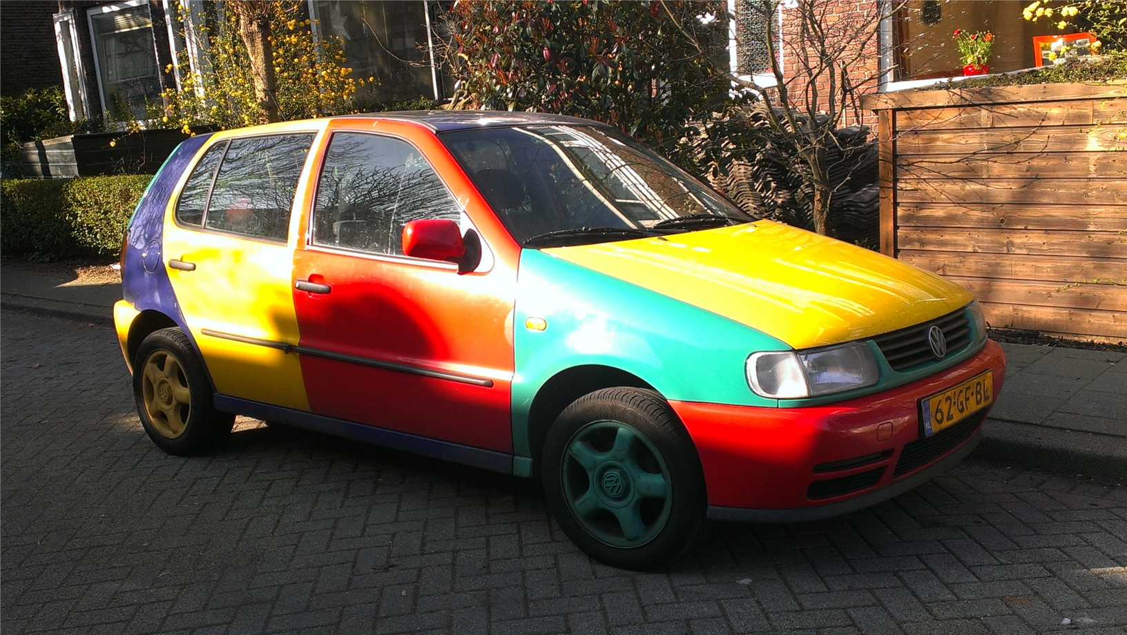 Volkswagen Polo Harlekin